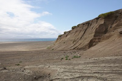 The volcanic Kasatochi Island , Alaska ten years after it expanded due to an eruption